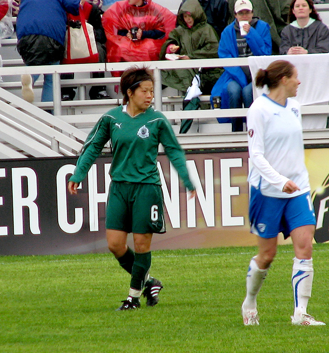 Aya Miyama of the (WPS) Womens Professional Soccer Club, St.Louis Athletica.